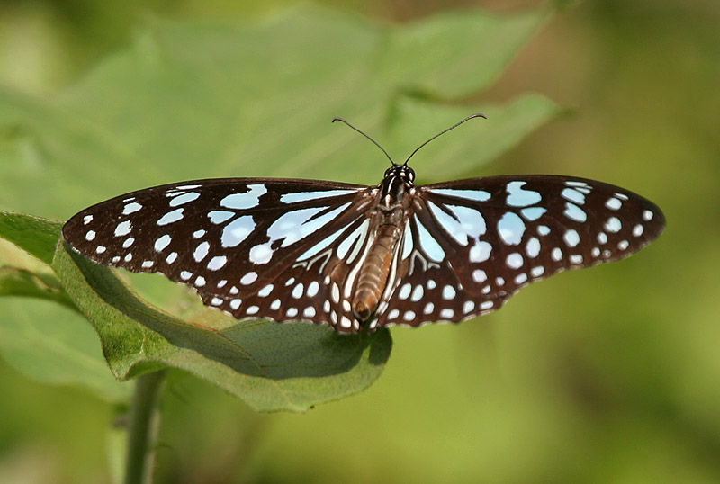 Blue Tiger Tirumala limniace at Narendrapur near Kolkata, West Bengal, India.